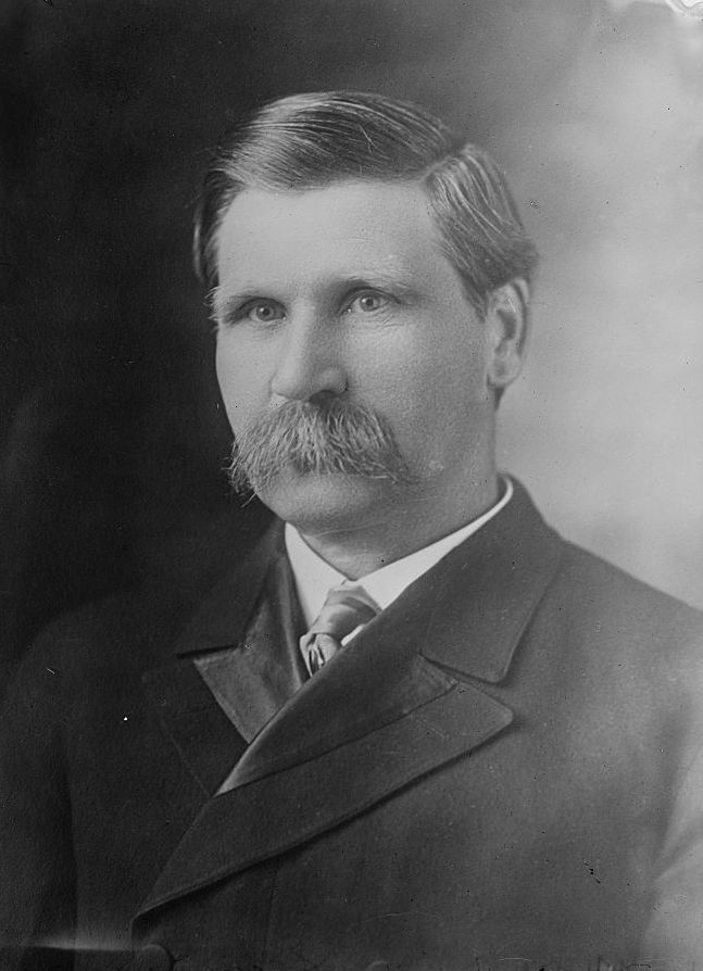 Title: A.J. Gronna Abstract/medium: 1 negative : glass ; 5 x 7 in. or smaller.